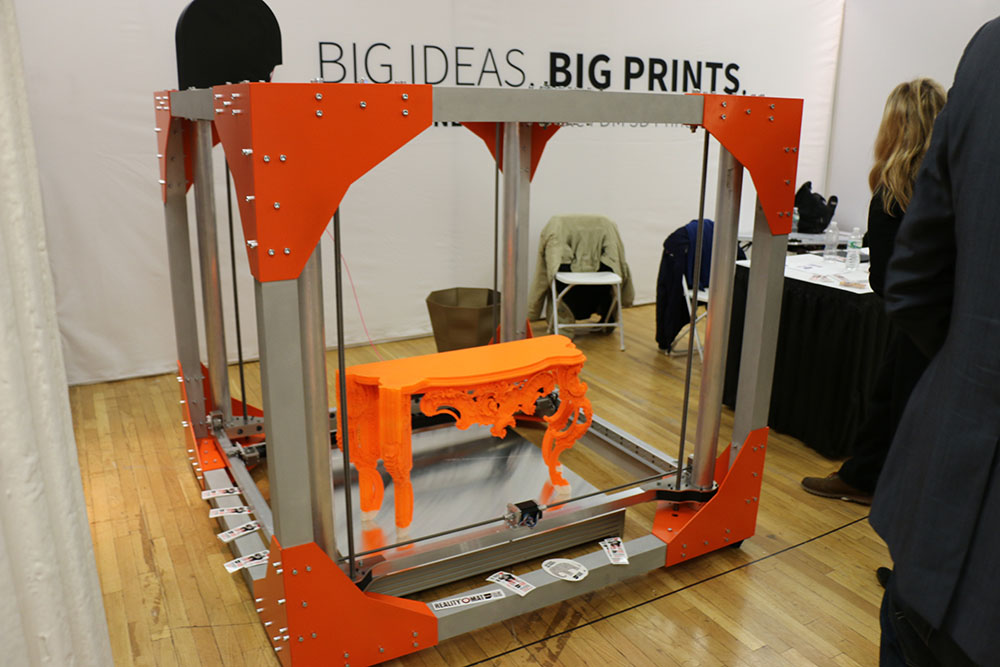 The BigRep One.2 - 1m³ volume